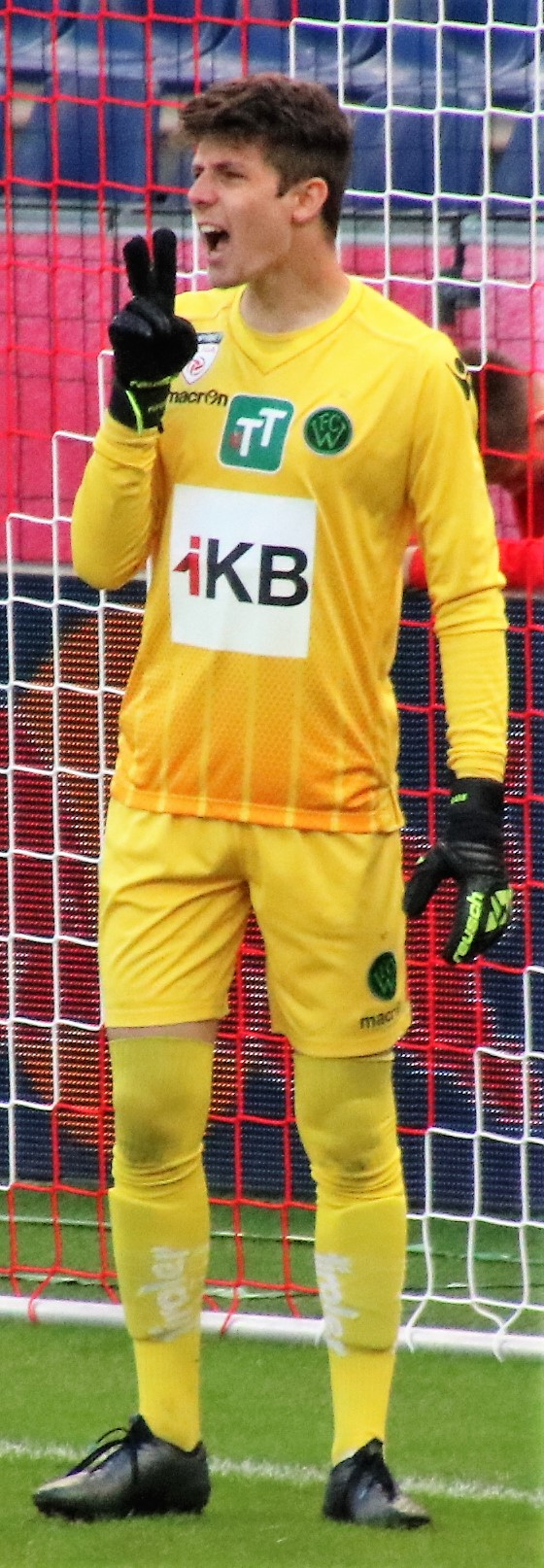 League match Austria 2nd league